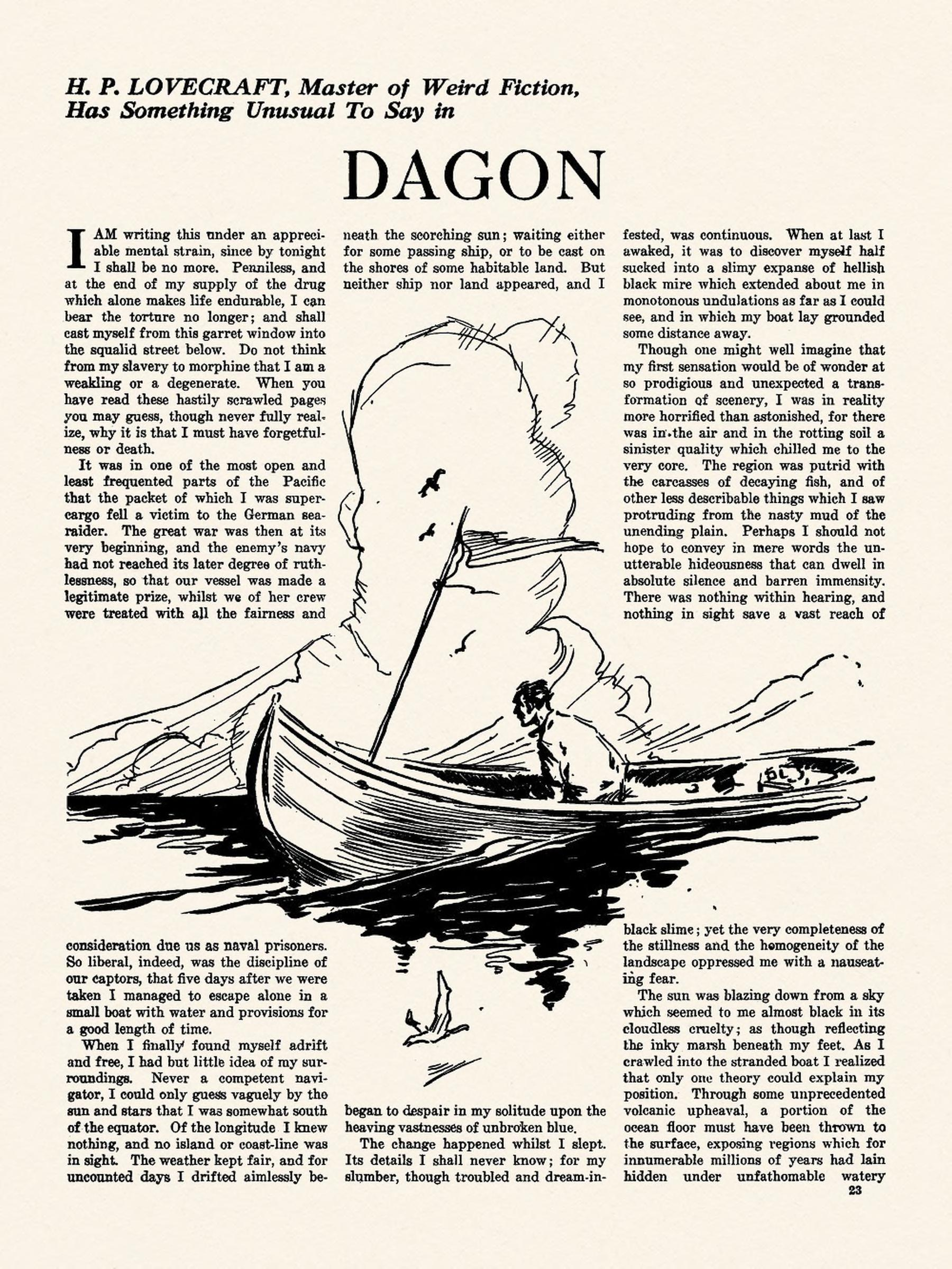 Cover page spread of H. P. Lovecraft's Dagon as it appeared in Weird Tales October, 1923.